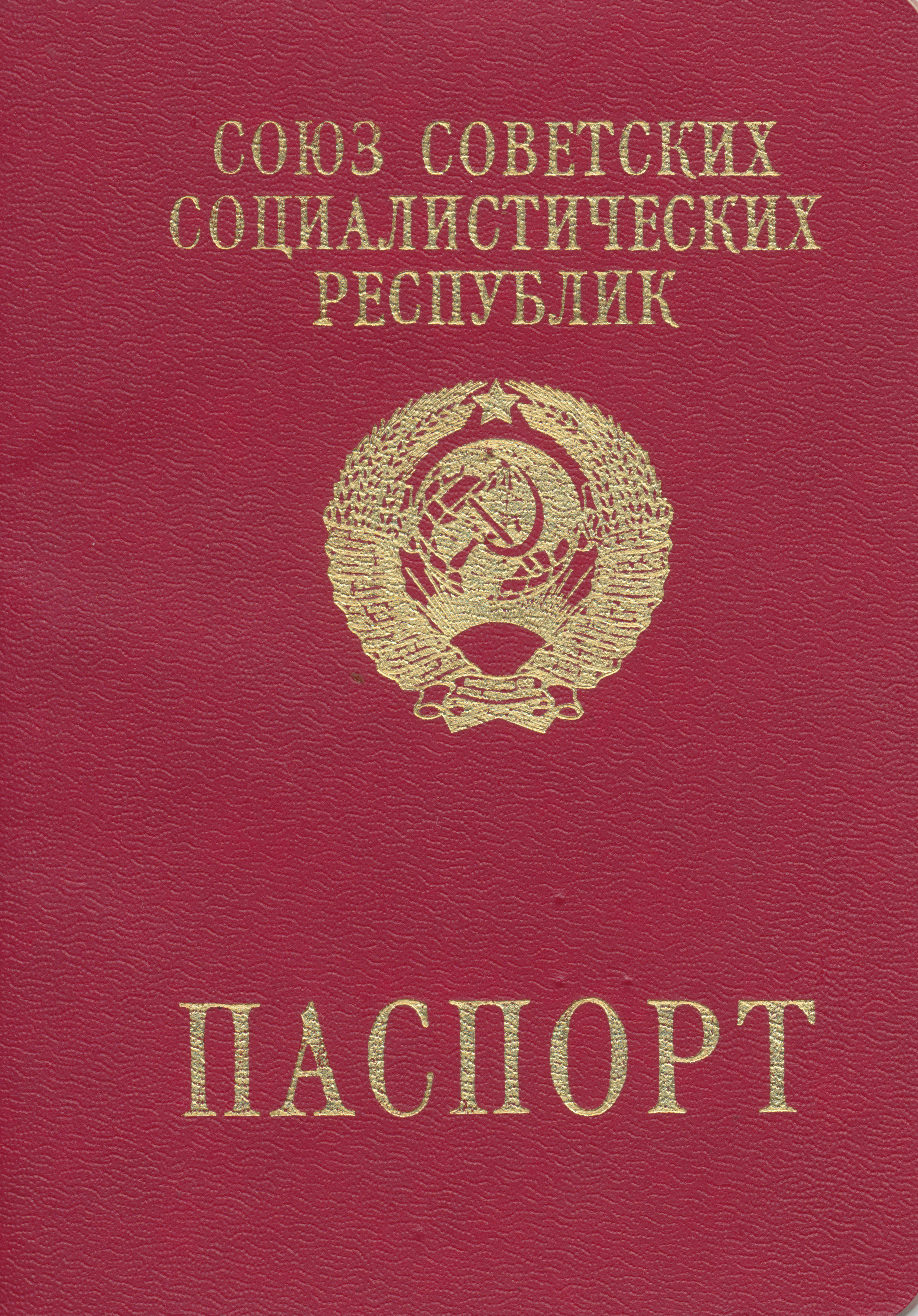 Soviet Passport Cover c.1991 print